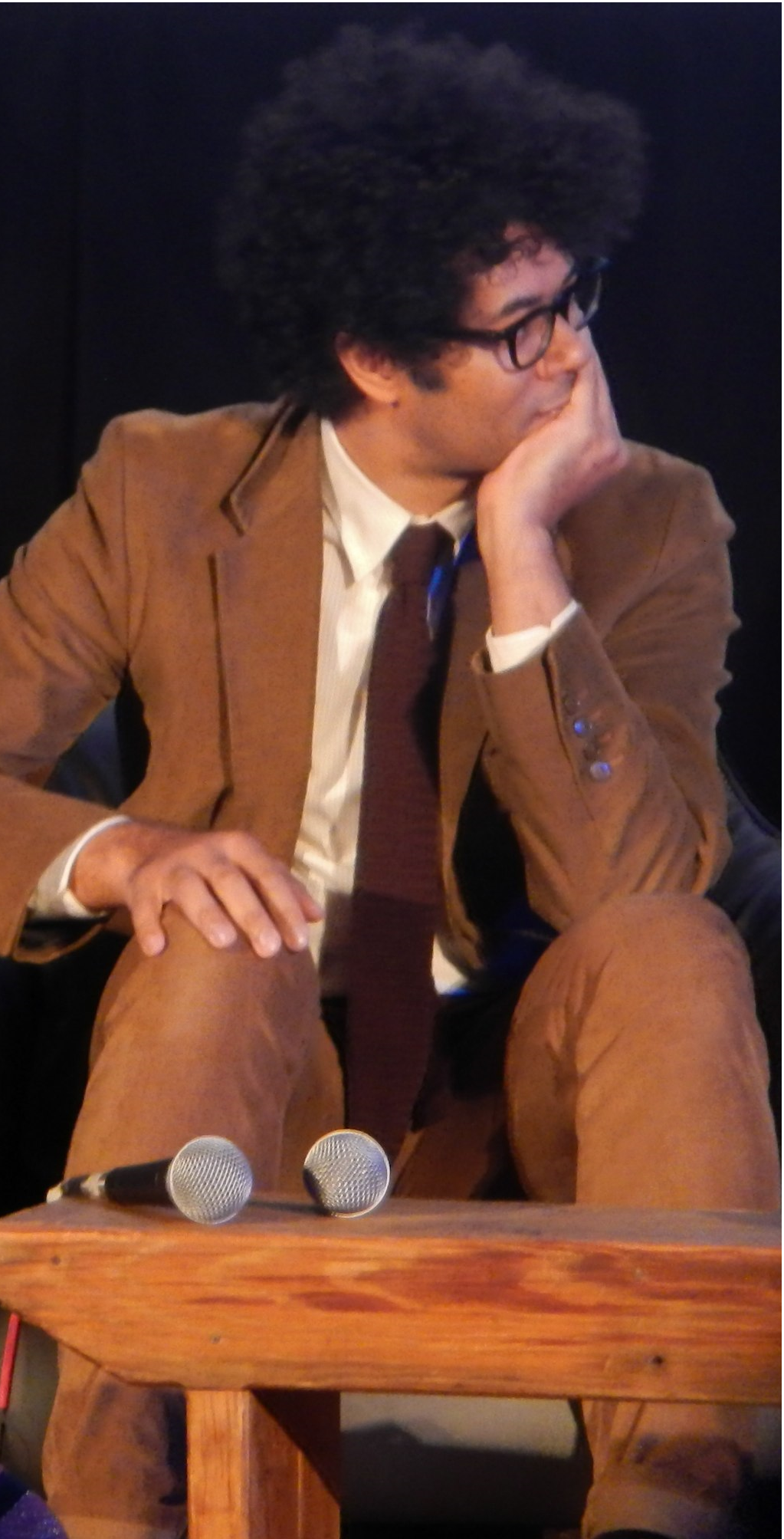 Cinema Cafe at Sundance 2014